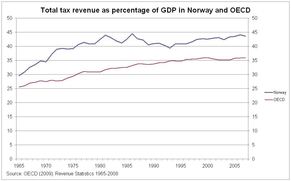 Graph of total taxes as percentage of GDP on Norway and OECD in 1965-2007.